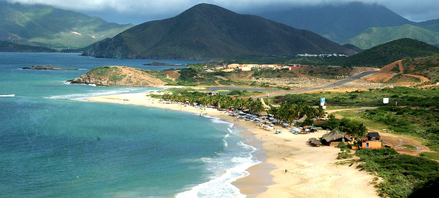 Playa Caribe, Margarita Island.